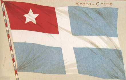 Flag of Cretan State (1897-1913)